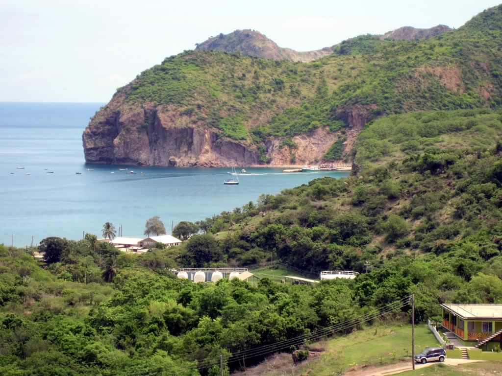 Little Bay, Montserrat, the island's maritime port of entry.